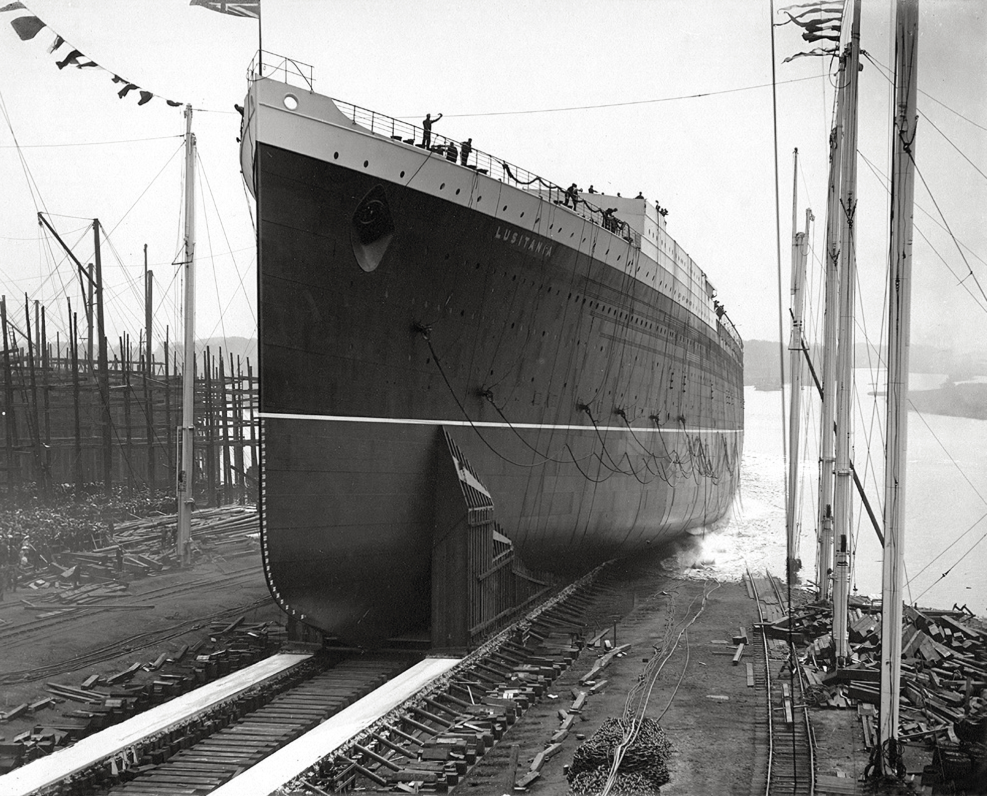 Lusitania first contact with water in her launch